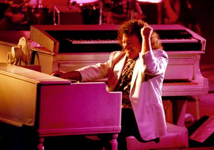 Lynyrd Skynyrd Pianist